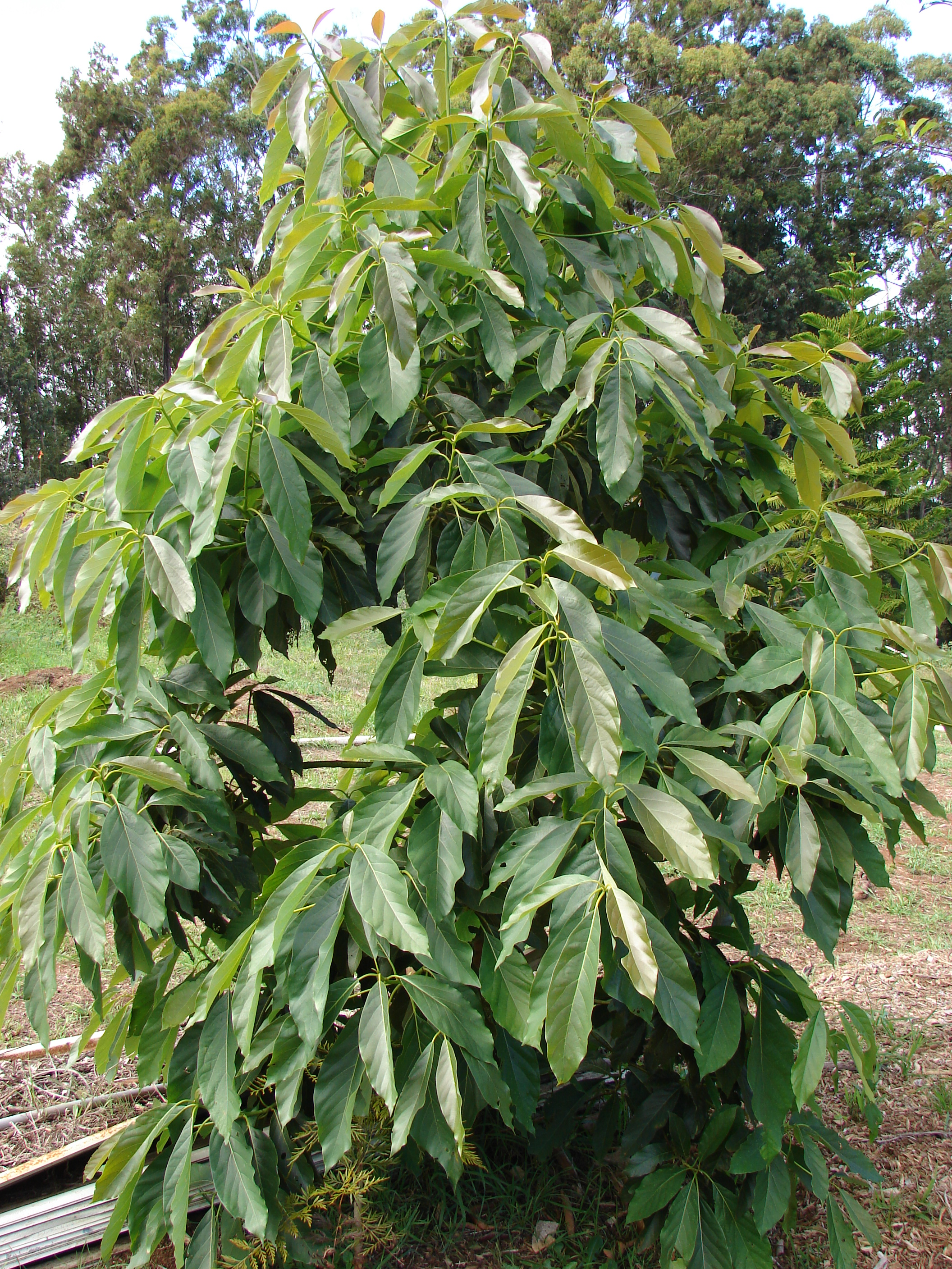 Persea americana (habit). Location: Maui, Olinda